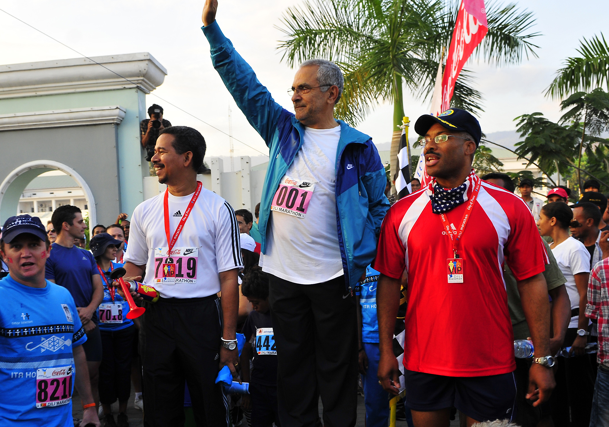 DILI, Timor-Leste (June 18, 2011) Dr. Jose Ramos-Horta, President of Timor-Leste, center, waves to the crowd as Capt. Jesse A. Wilson, commander of Pacific Partnership 2011, right, watches the start of the Marathon for Peace race. Pacific Partnership is a five-month humanitarian assistance initiative that completed its mission in Tonga and Vanuatu, and Papua New Guinea, and will visit Timor Leste, and the Federated States of Micronesia. (U.S. Navy photo by Mass Communication Specialist 2nd Class Michael Russell/Released)